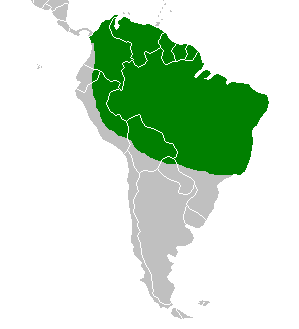 Gold tehu range